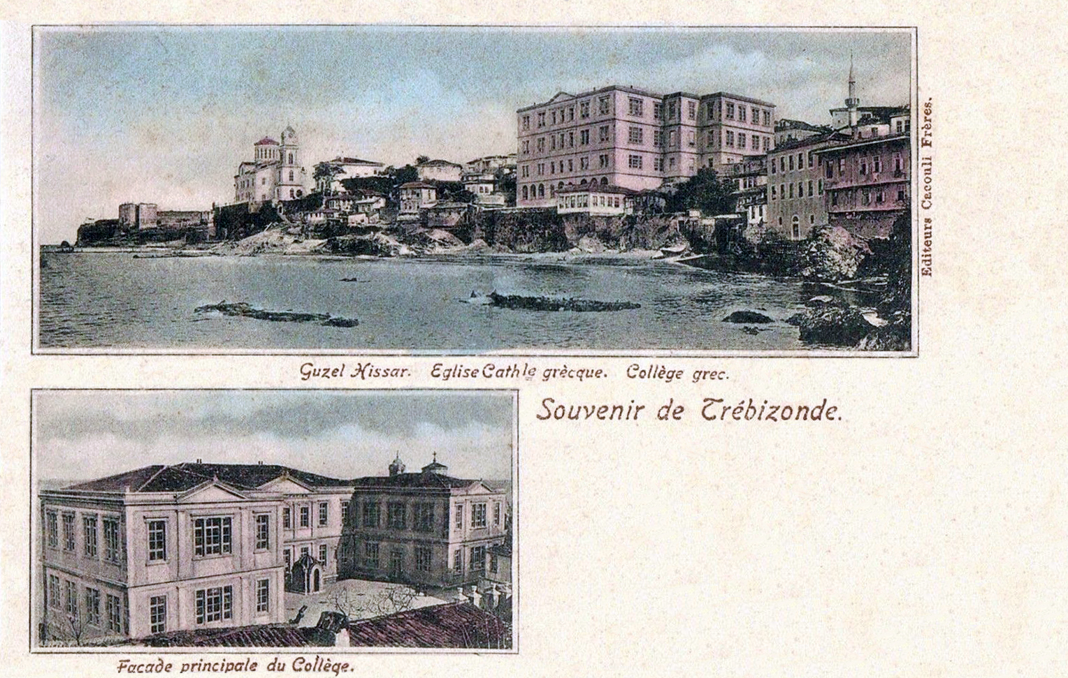 Postcard of Trebizond (Trabzon), Ottoman Empire.